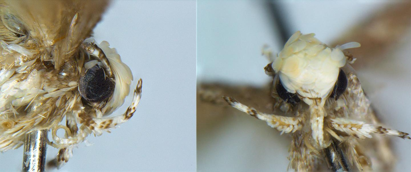 Close up photograph of the head of the holotype of the new species of micro-moth Neopalpa donaldtrumpi